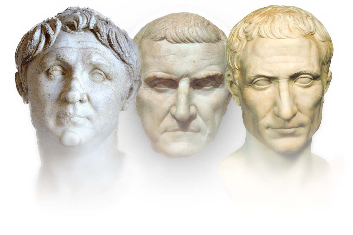 The First Triumvirate of the Roman Republic (L to R) Gnaeus Pompeius Magnus, Marcus Licinius Crassus, and Gaius Julius Caesar. This composite was created using individual images available on Wikimedia Commons provided by Carole Raddato (Pompey the Great at the Venice Museo Archeologico Nazionale), Gautier Poupeau (Marcus Licinius Crassus at The Louvre in Paris, France), and the Museo Pio Clementino of the Roma Musei Vaticani (Gaius Julius Caesar).